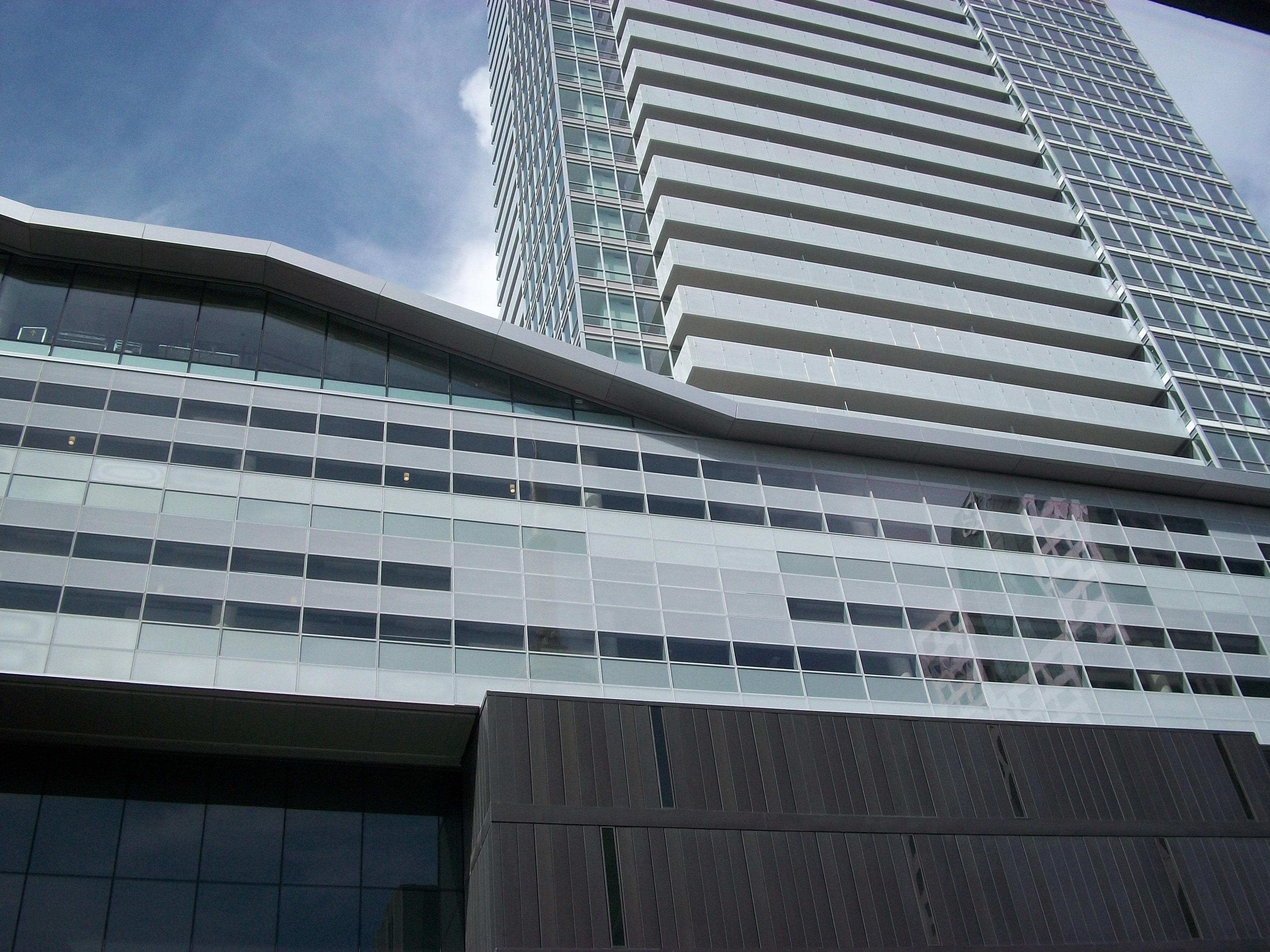 TIFF Bell Lightbox, one day before its official opening, shot from Dhaba Restaurant across the street.